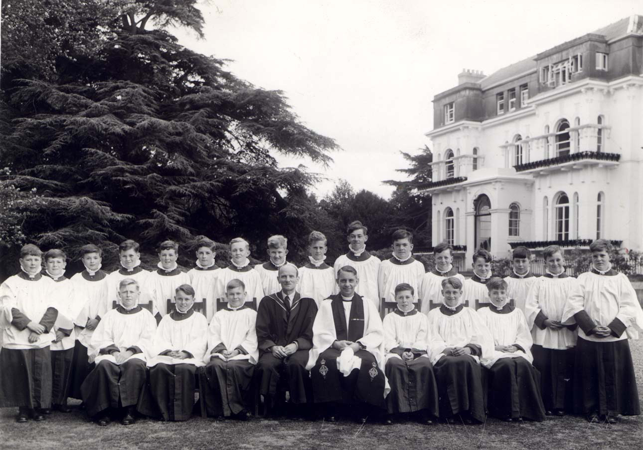 The choir of Lambrook School circa 1960/61